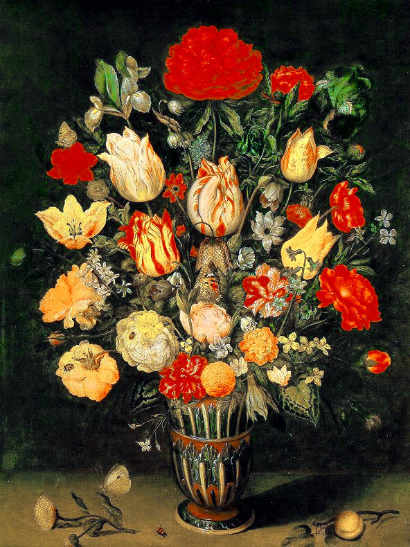 Still-Life of Flowers